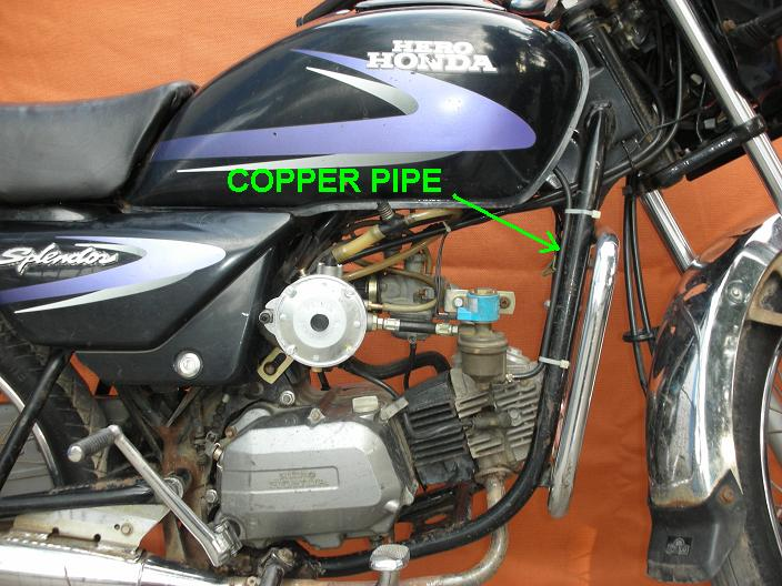 A petrol engine of motor bike which converted into gas powered engine with the help of converter or vaporizer